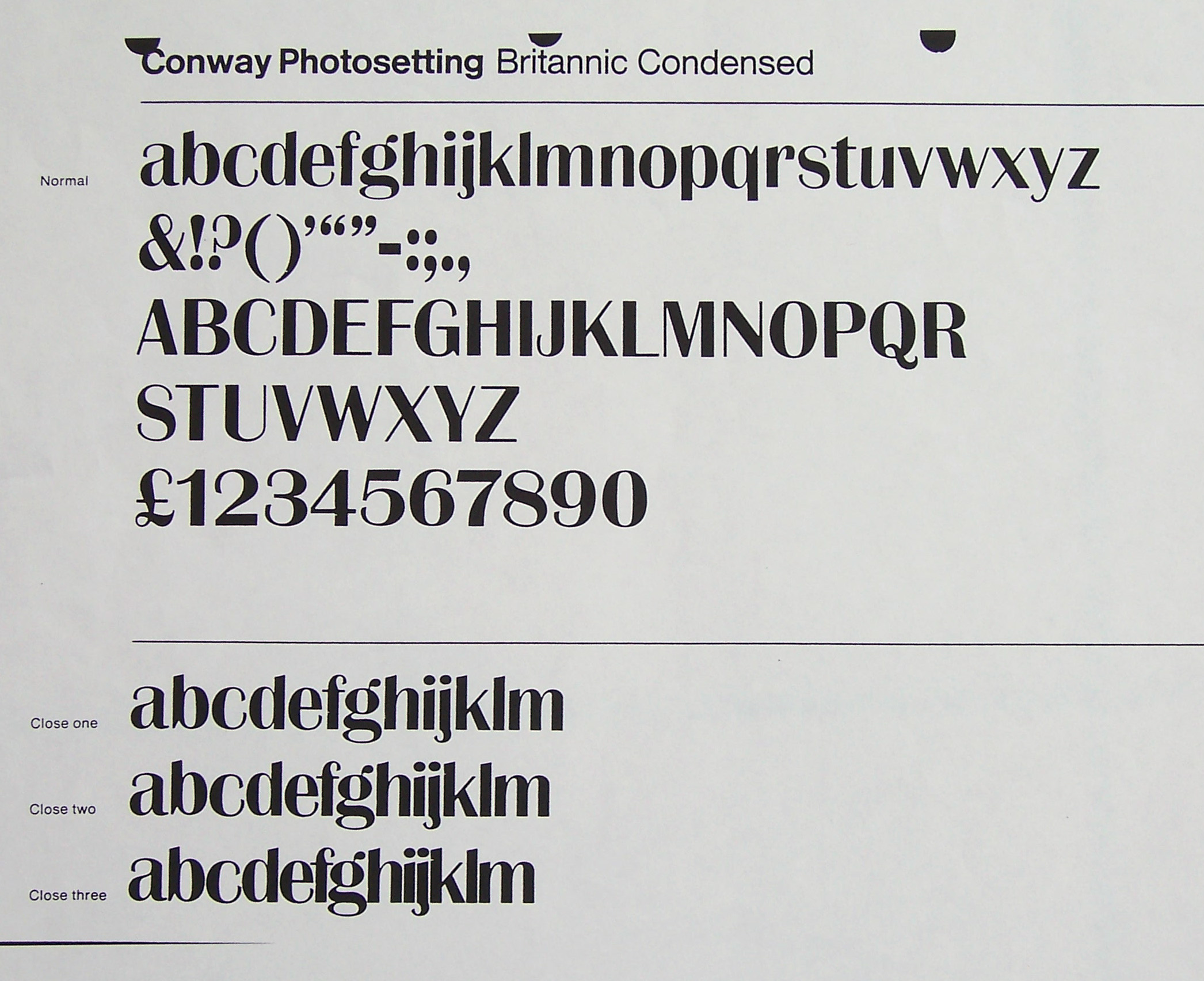 The font Britannic Condensed on a phototypesetting specimen sheet.